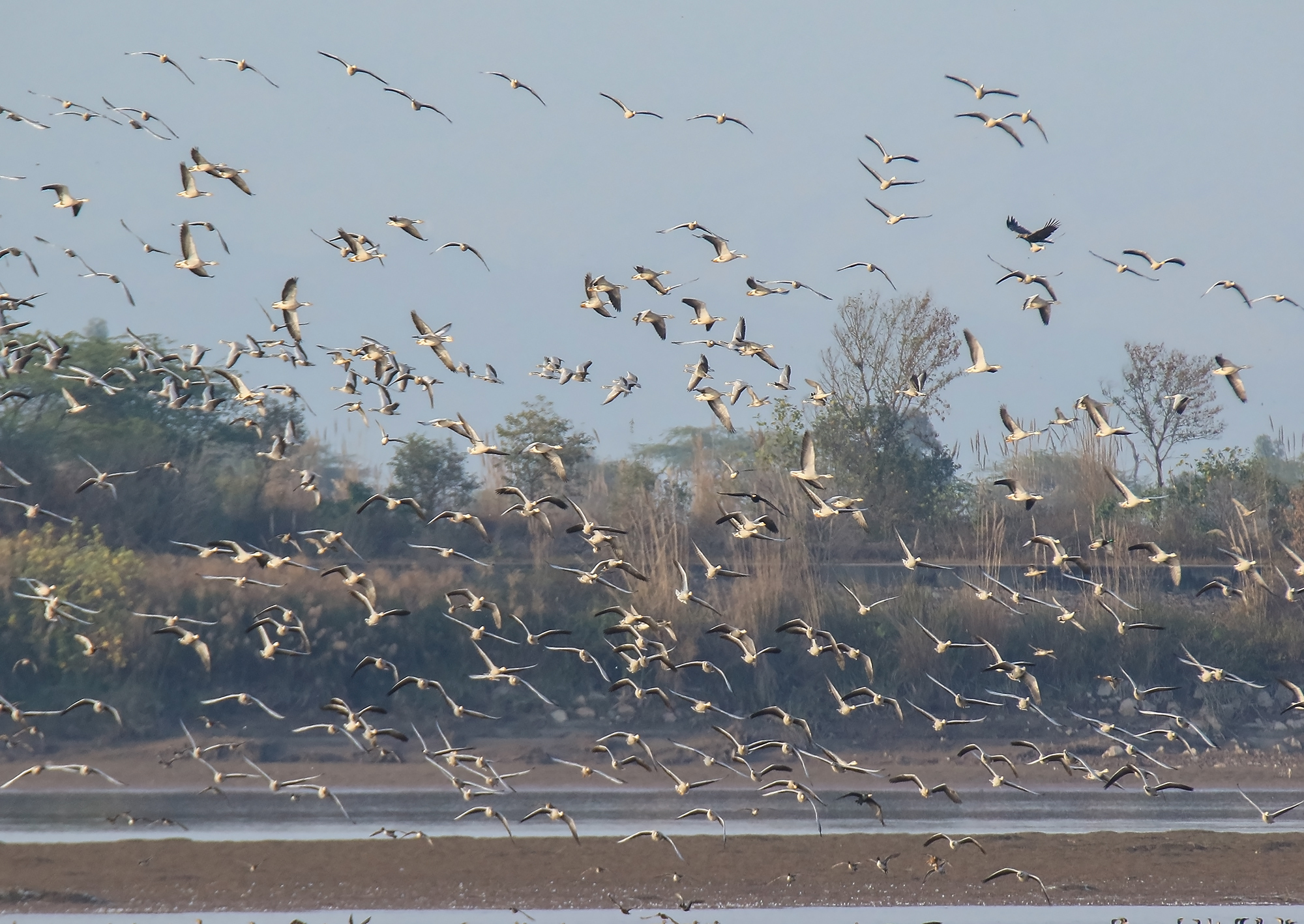 Bar-headed Goose (Anser indicus), Imperial Eagle (Aquila heliaca), Northern Pintail (Anas acuta) & Great Cormorant (Phalacrocorax carbo) captured at Marala, Sialkot, Punjab, Pakistan with Canon EOS 7D Mark II